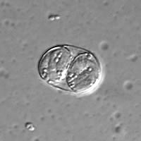 Toxoplasma gondii sporulated oocyst, differential interference contrast (DIC), 100×.